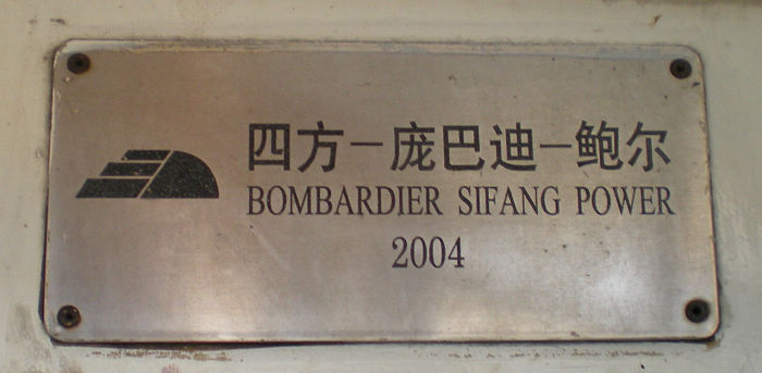 it shows that this rolling stock is made by BSP(Bombardier-Sifang-Power) it was made in 2004 中文（中国大陆）: BSP出厂铭牌，2004年造